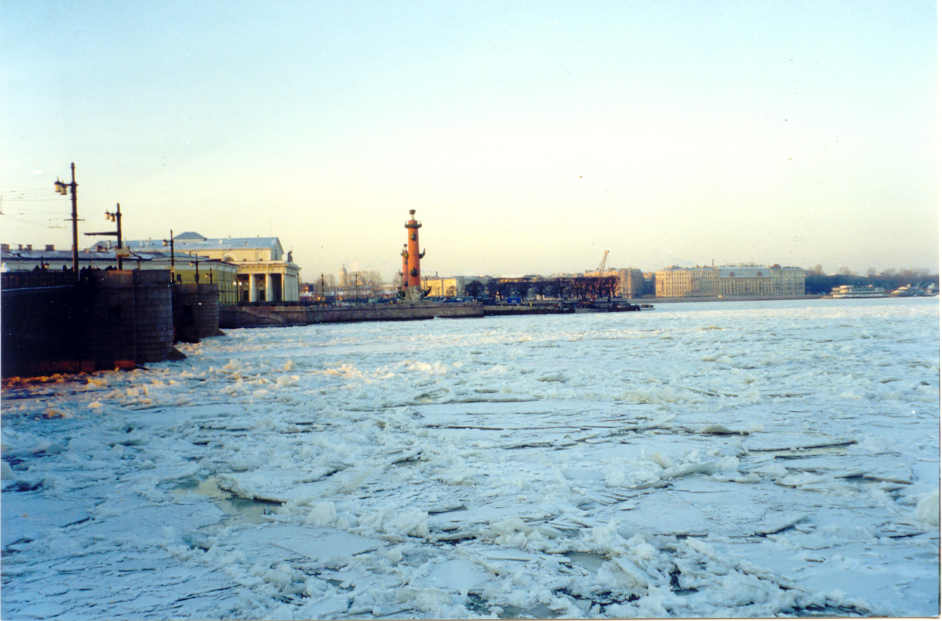 Saint Petersburg,Russia-Magic winter impressions at the Neva river bank 2